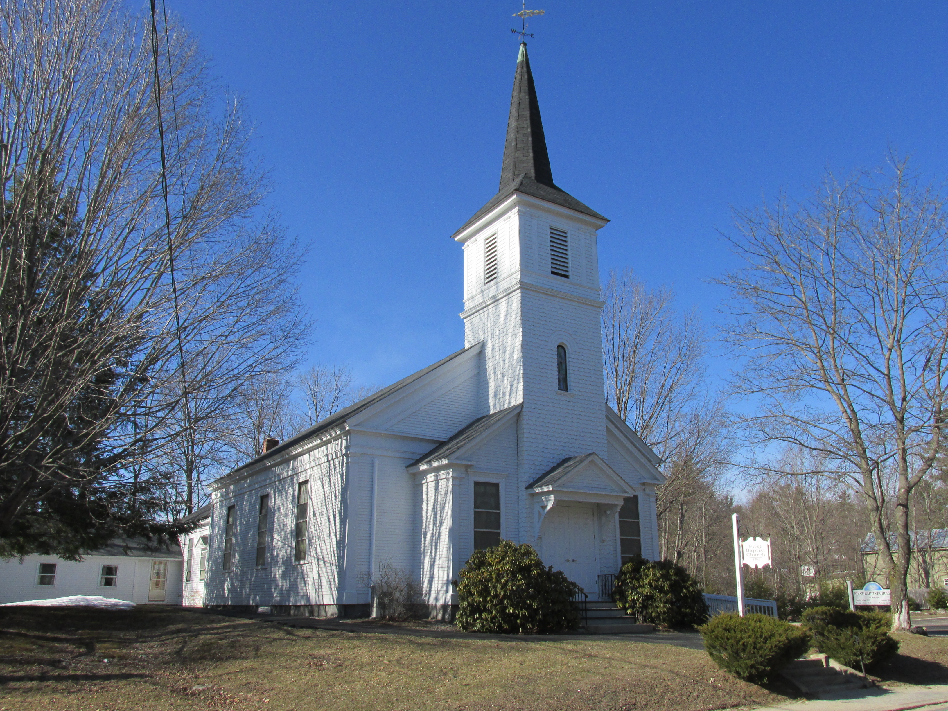 First Baptist Church, Wolfeboro Falls New Hampshire - 2013